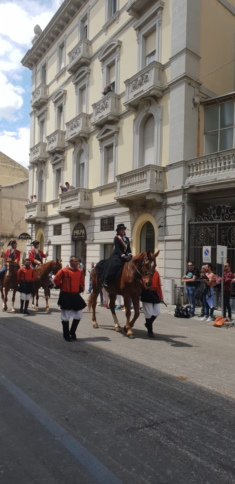 First woman in charge of Alter Nos'role in Sant'Efisio Festival in Cagliari (2019)